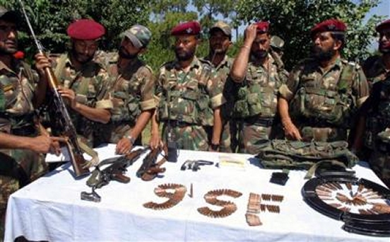 Elite Indian PARA Commandos